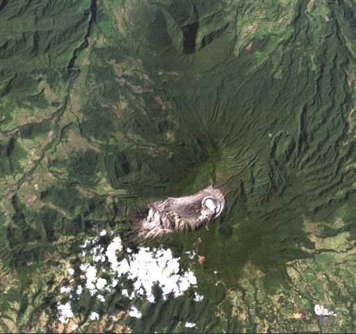 Poás Volcano, Costa Rica from space